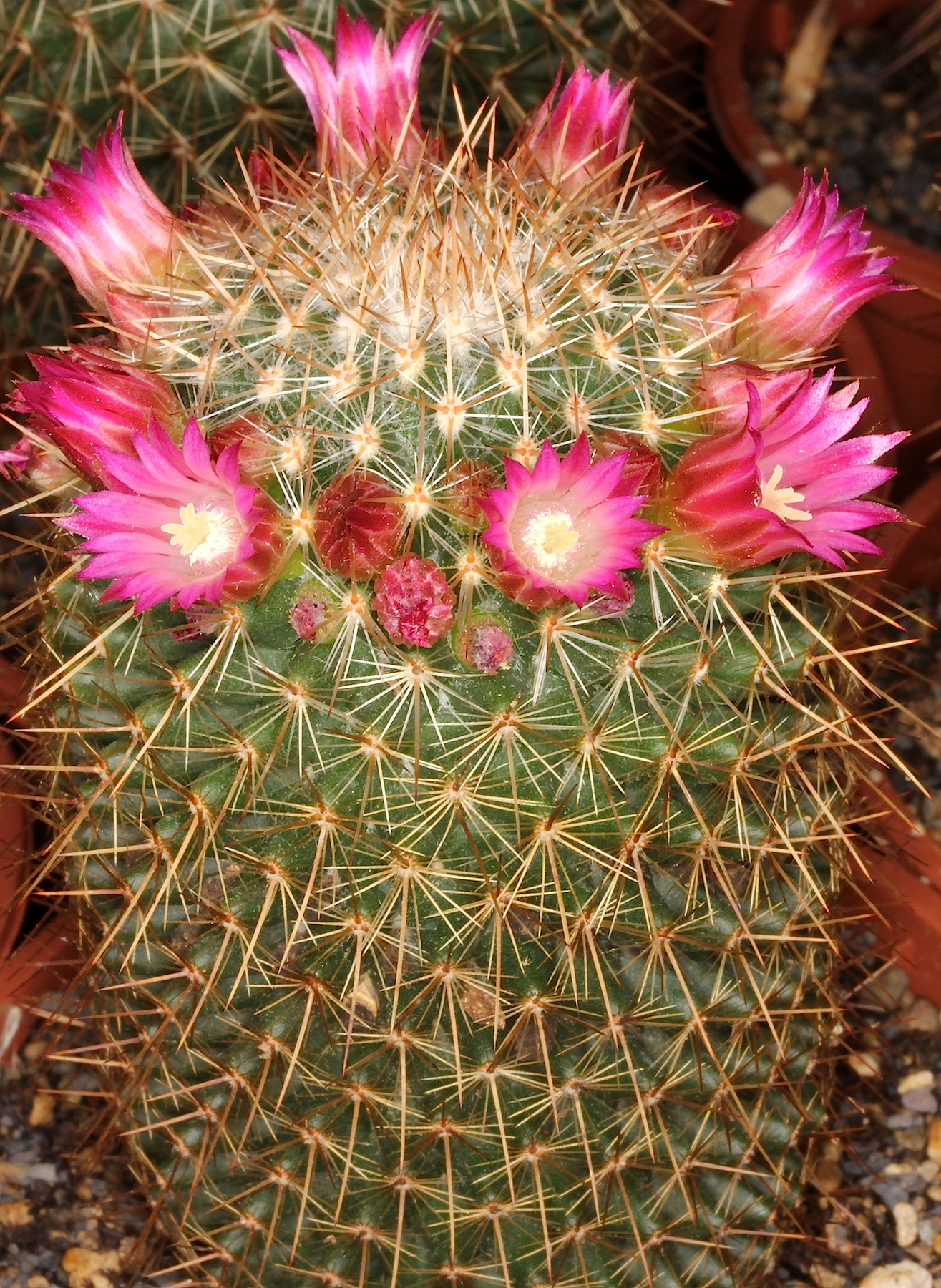 Mammillaria meyranii